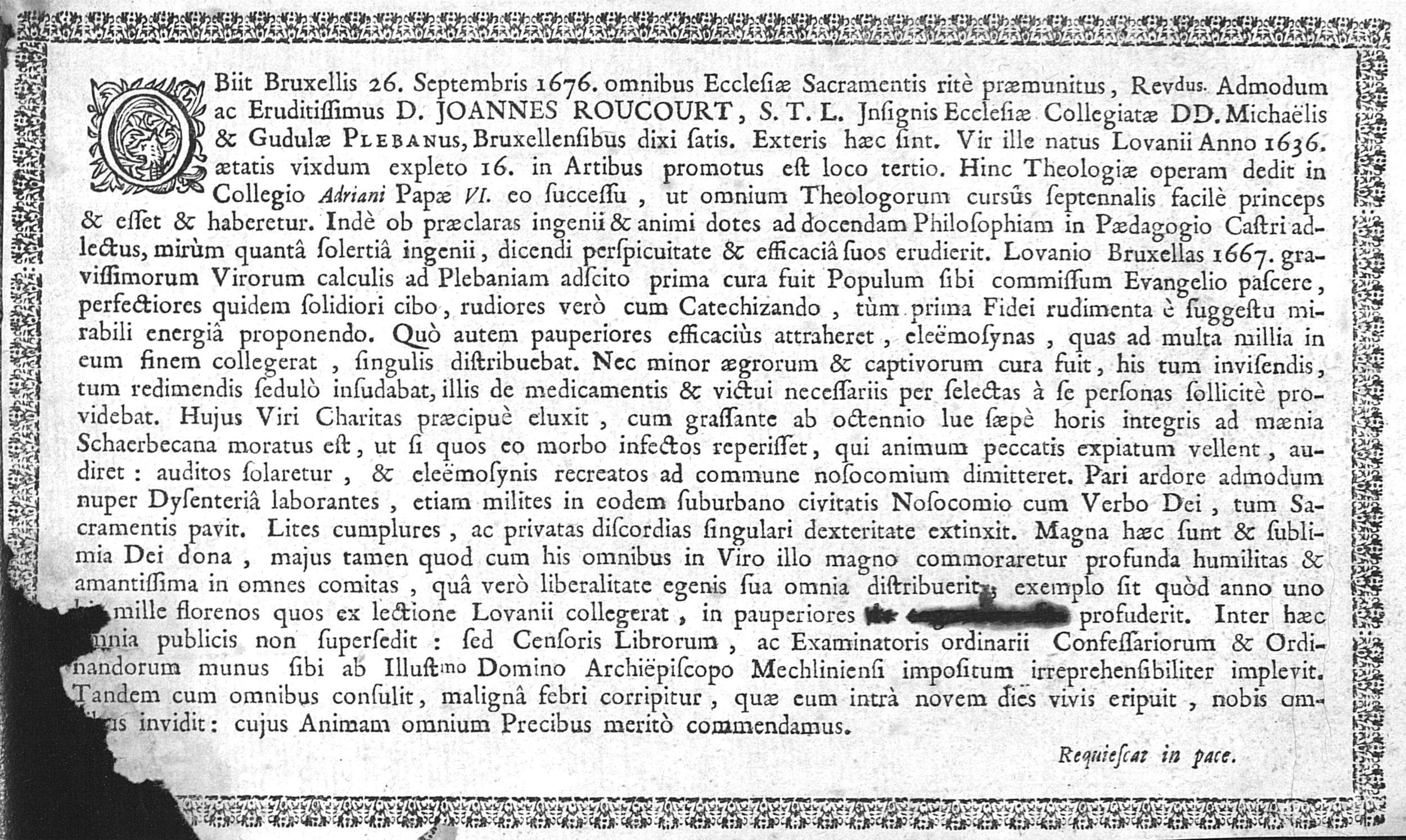 Death notice of Theologian Joannes Roucourt (1636-1676), describing his life in Latin. Translation in